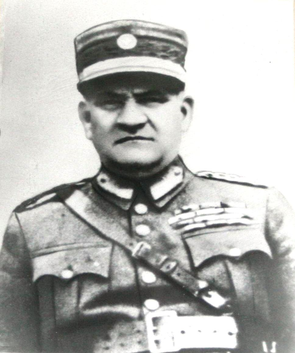 Greek general Achilleas Protosyngellos (1879-1943)